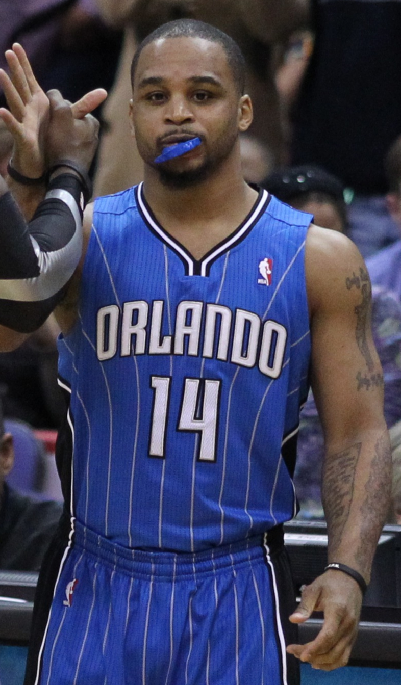 Washington Wizards v/s Orlando Magic February 4, 2011